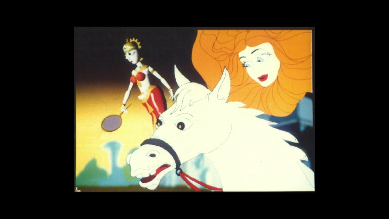 Purush's friends, a horse and other positive humanoid emotions.